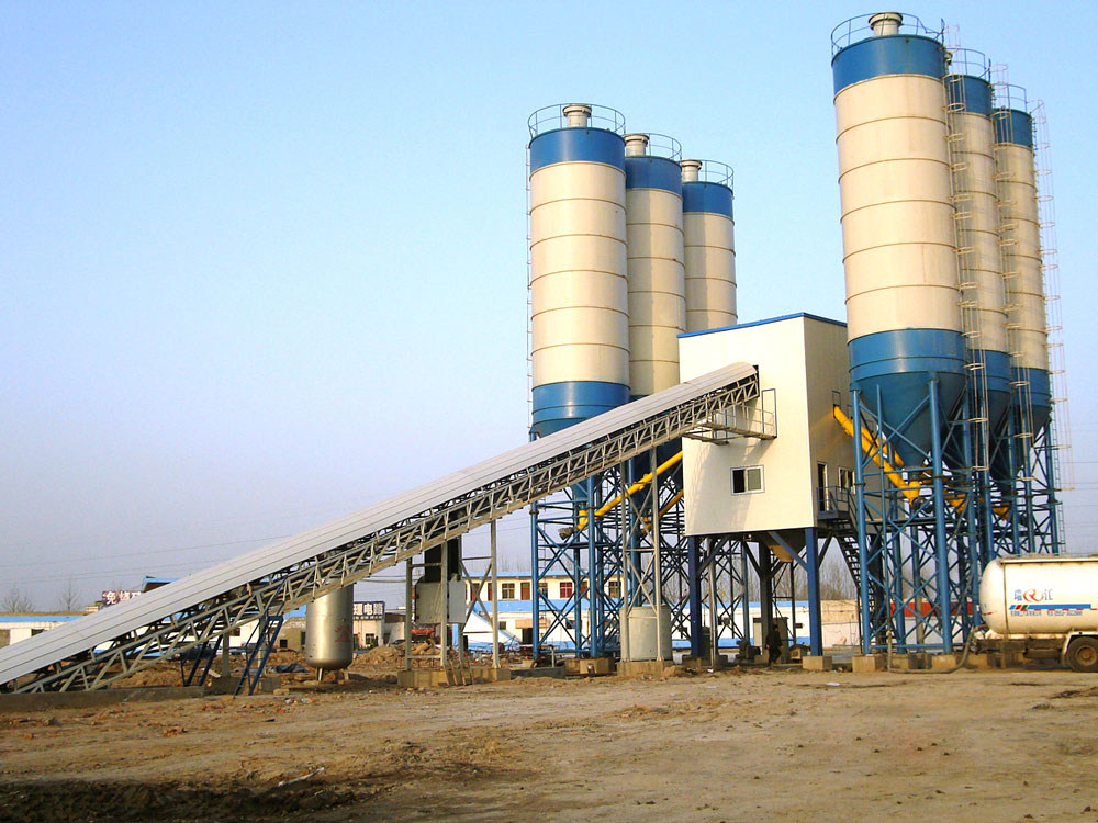 This is a picture of concrete plant